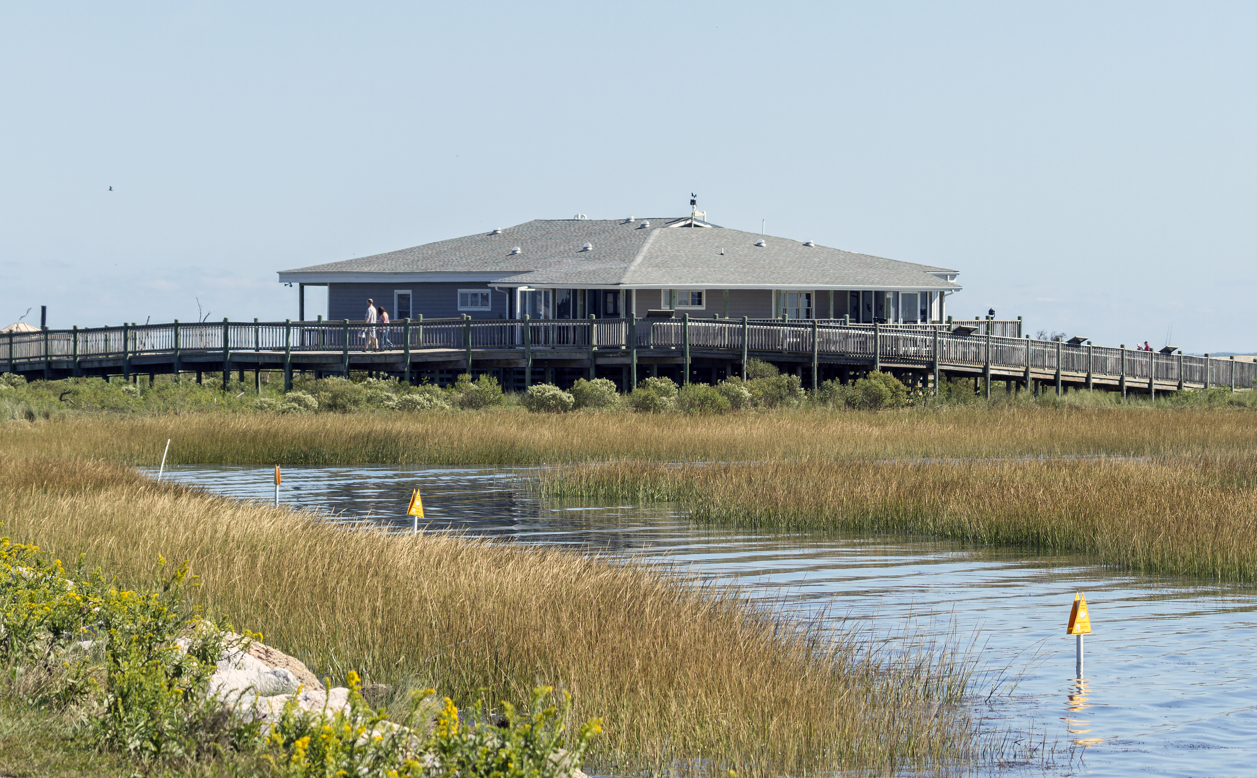 Toms Cove Visitor Center, Assateague Island National Seashore, Virginia, USA